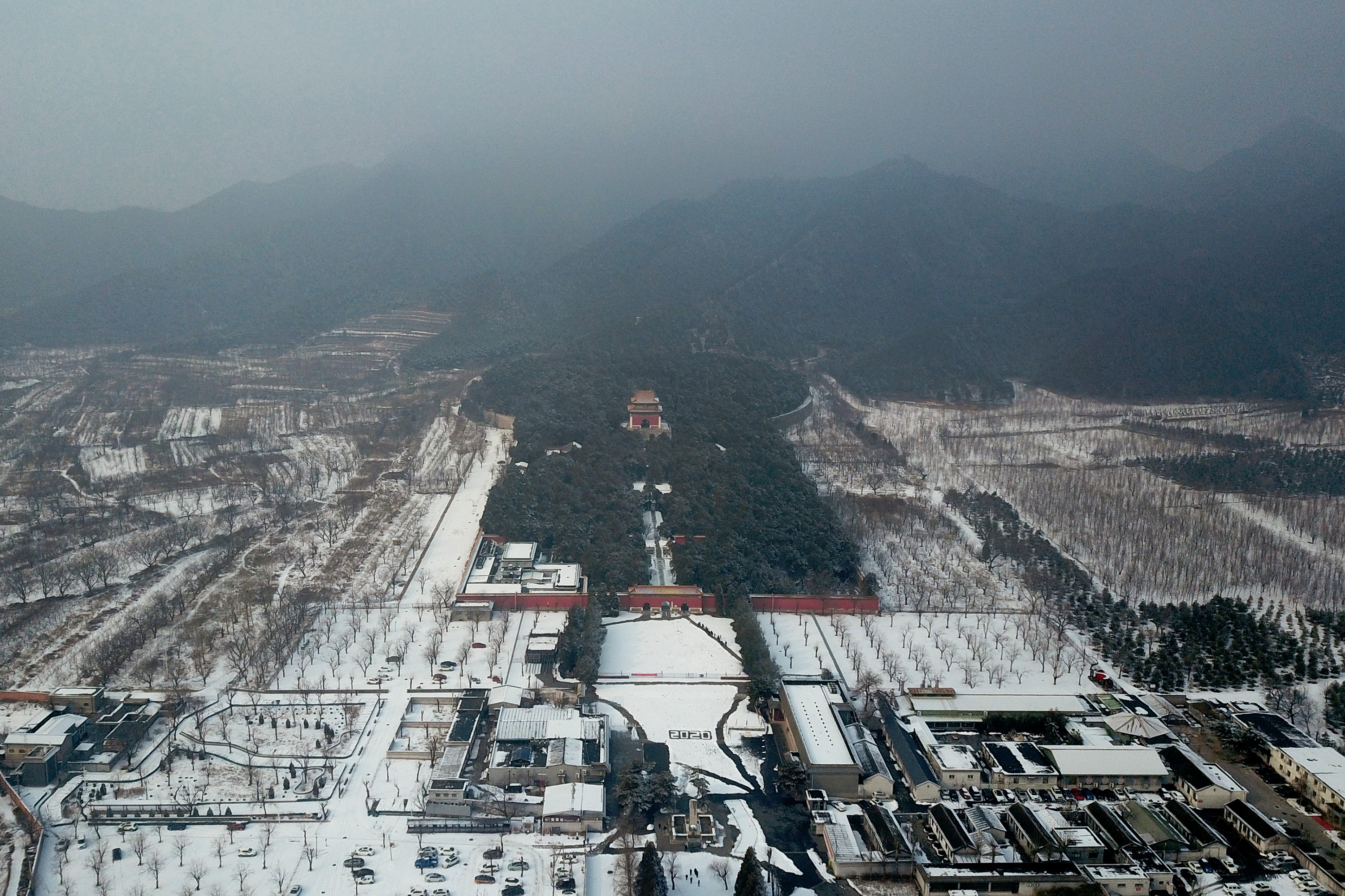 Ming Dingling mausoleum, where the Wanli emperor, together with his two empresses Wang Xijie and Dowager Xiaojing was buried. 中文（中国大陆）: 明定陵，明代万历皇帝的陵墓。现为对外开放的博物馆，地宫可以进入。